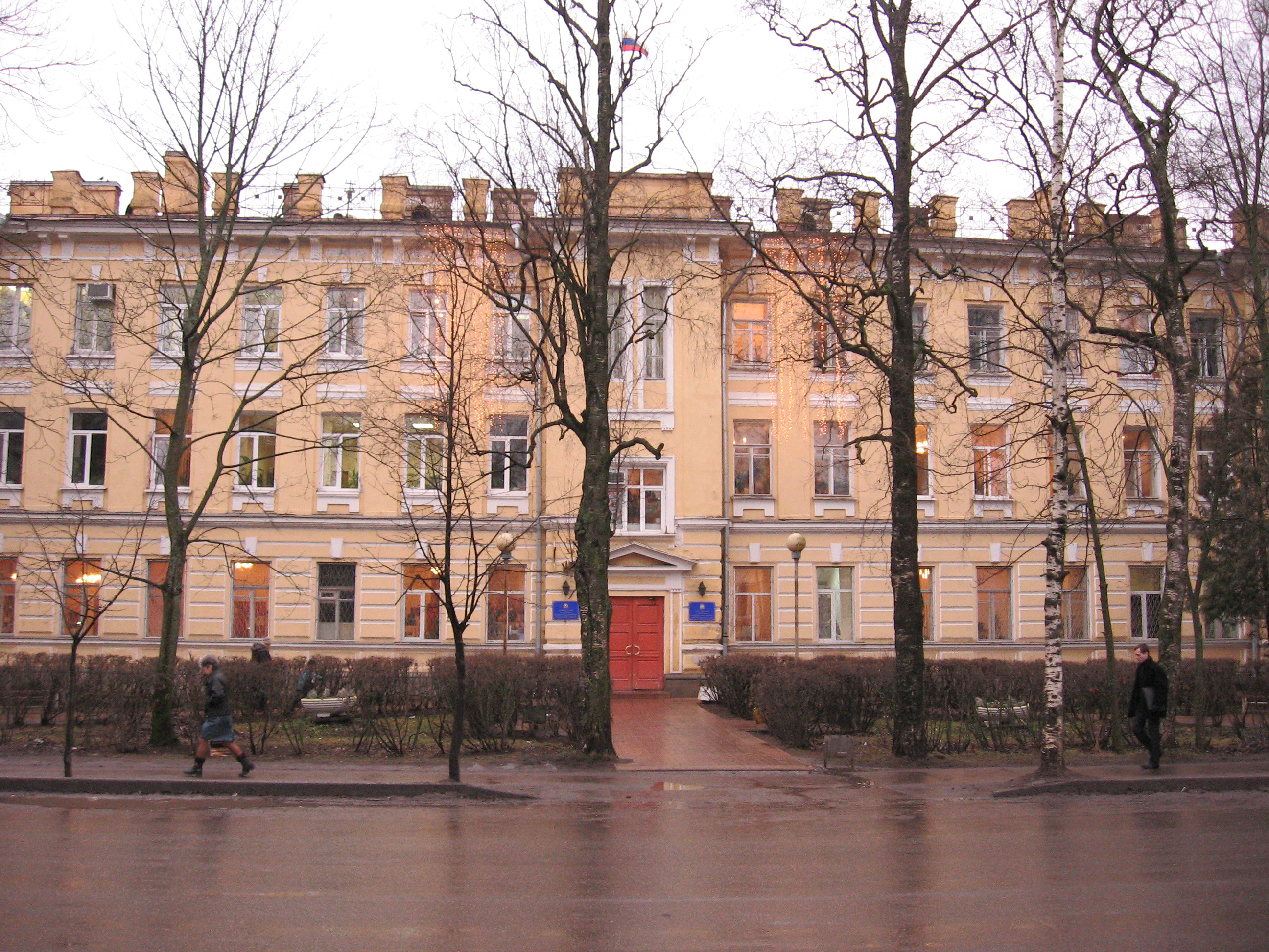 Administration building of Gatchina rayon in Gatchina